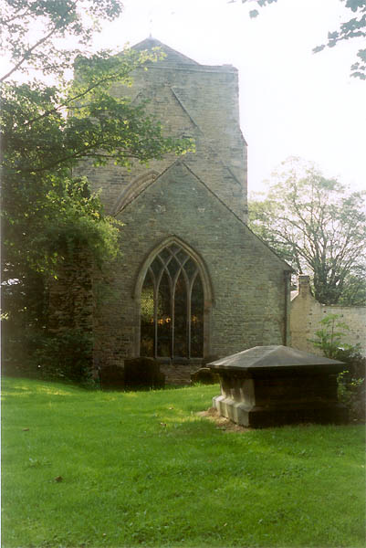 St Thomas of Canterbury's church, Beauchief Abbey, Sheffield, South Yorkshire, seen from the east